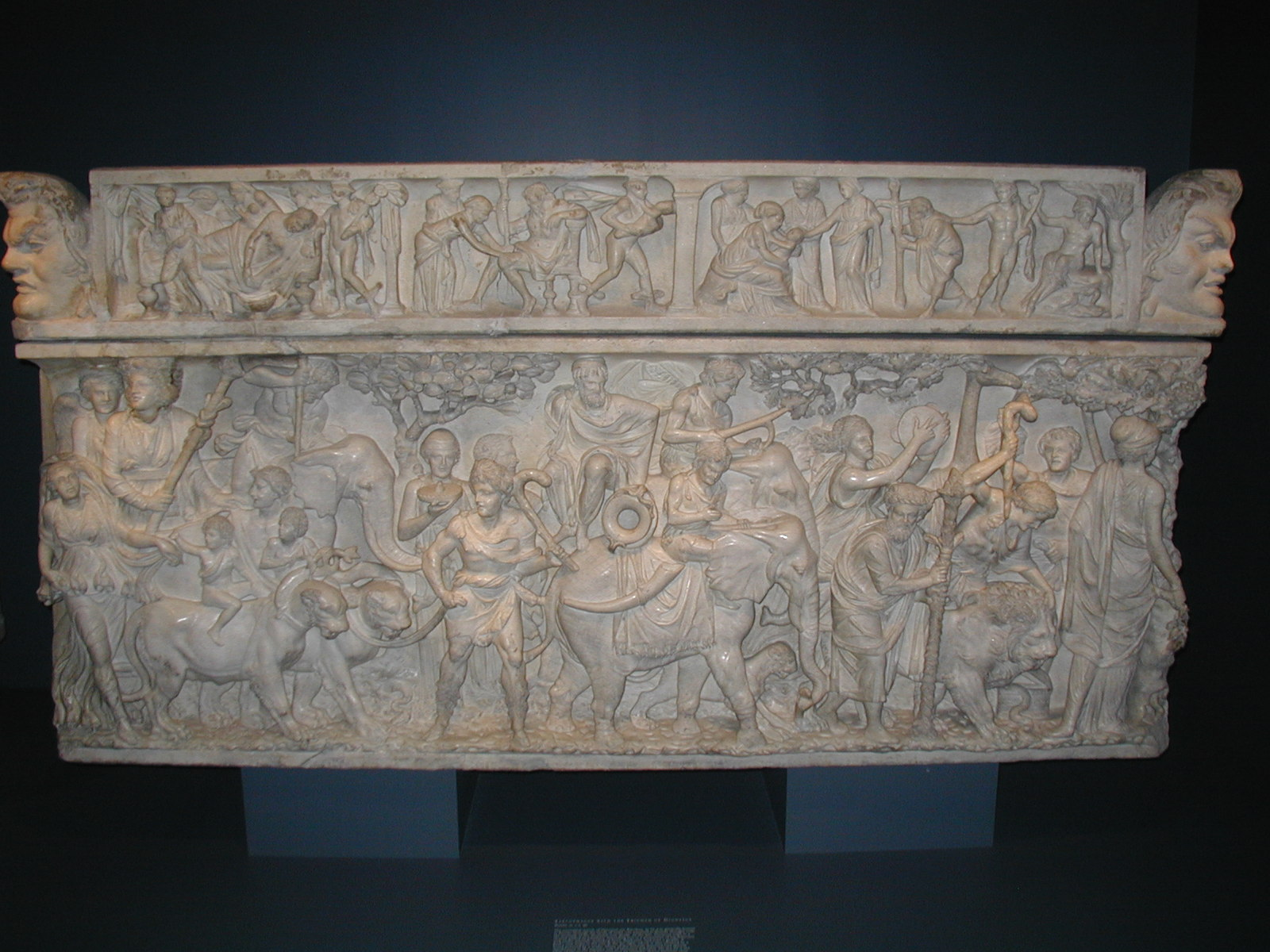 Marble Roman sarcophagus depicting the Triumph of Bacchus returning from India, 2nd century AD, currently in the Walters Art Museum in Baltimore, Maryland, U.S.A.